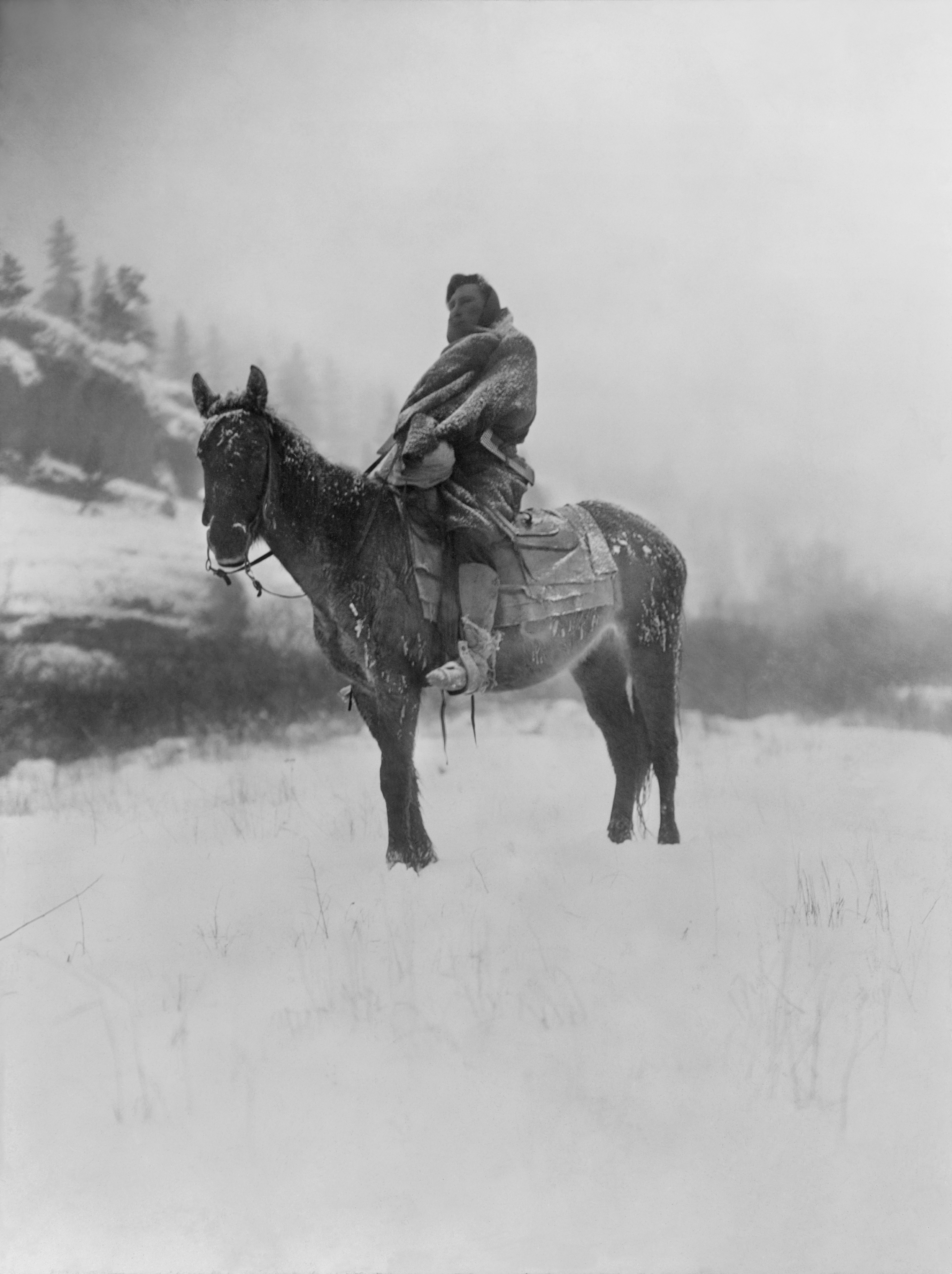 An Apsaroke (Crow tribe) man on horseback on snow-covered ground, probably in Pryor Mountains, Montana. Photographed by Edward Sheriff Curtis circa 6 July 1908. The original scan was made from a black and white film copy negative.